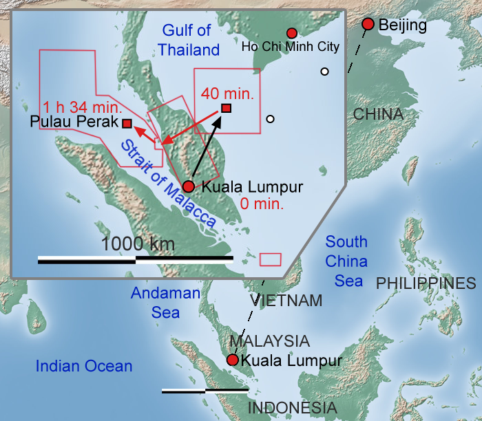 Route of Malaysia-Airlines-MH370 with search area inserted. Small circles are claimed sighting of debris. Derived from File:Malaysia-Airlines-MH370_map.png and File:Malaysia-Airlines-MH370 search area.png